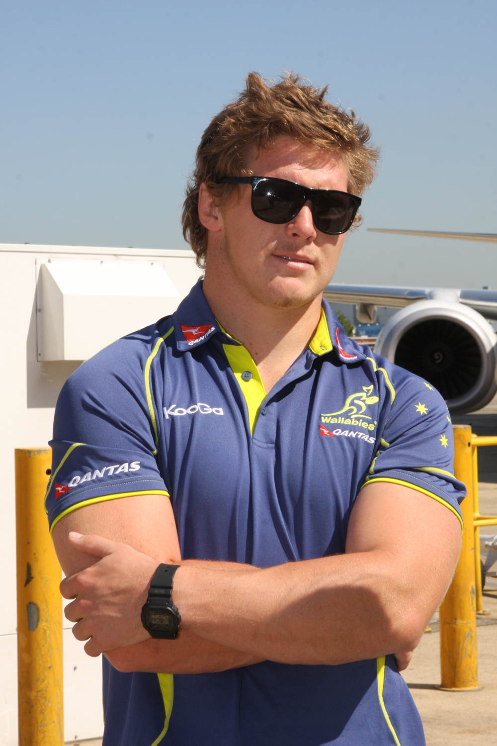 The Qantas Wallabies unveil a Boeing 737-800 aircraft sporting a giant moustache which will fly around the country for the month of November raising awareness of prostate cancer and men's mental health.